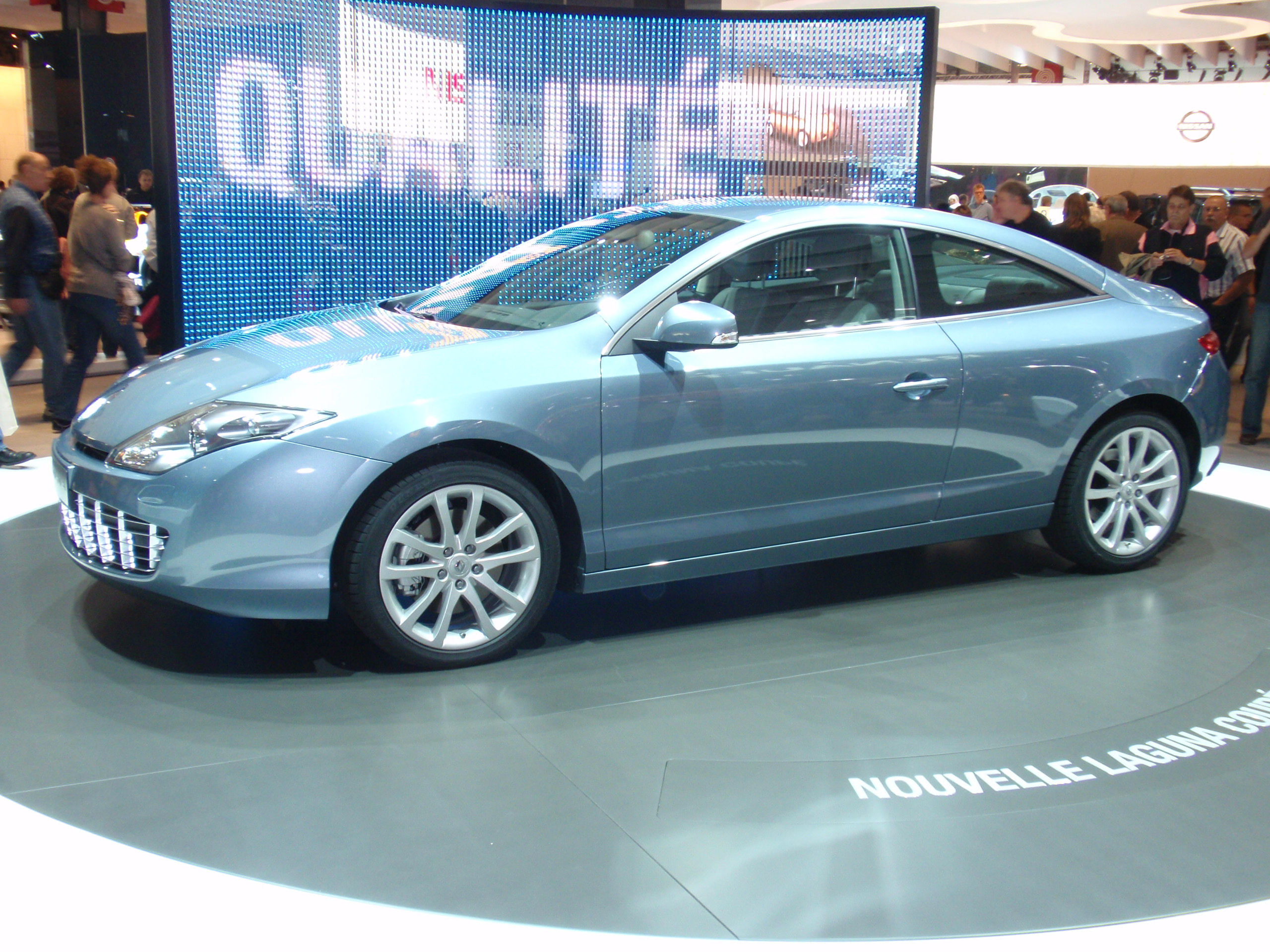 Renault Laguna Coupé at the 2008 Paris Motor Show